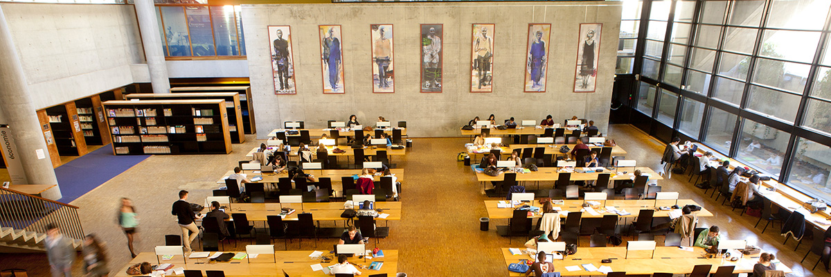 University-libraries